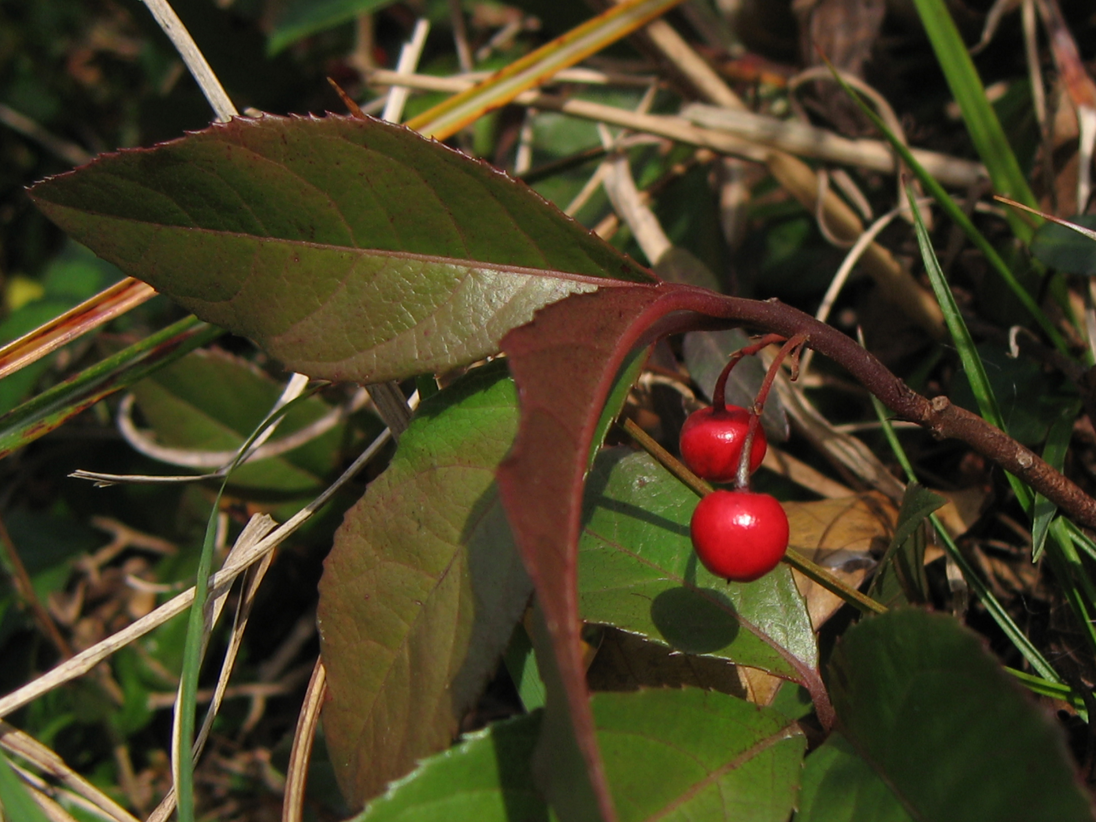 Ardisia japonica Blume Place taken: Ise, Mie, Japan.